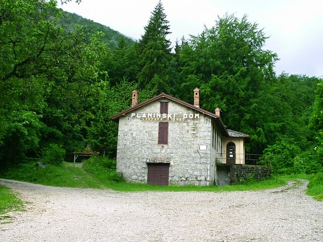 Nature and countryside of the Istria peninsula in Croatia